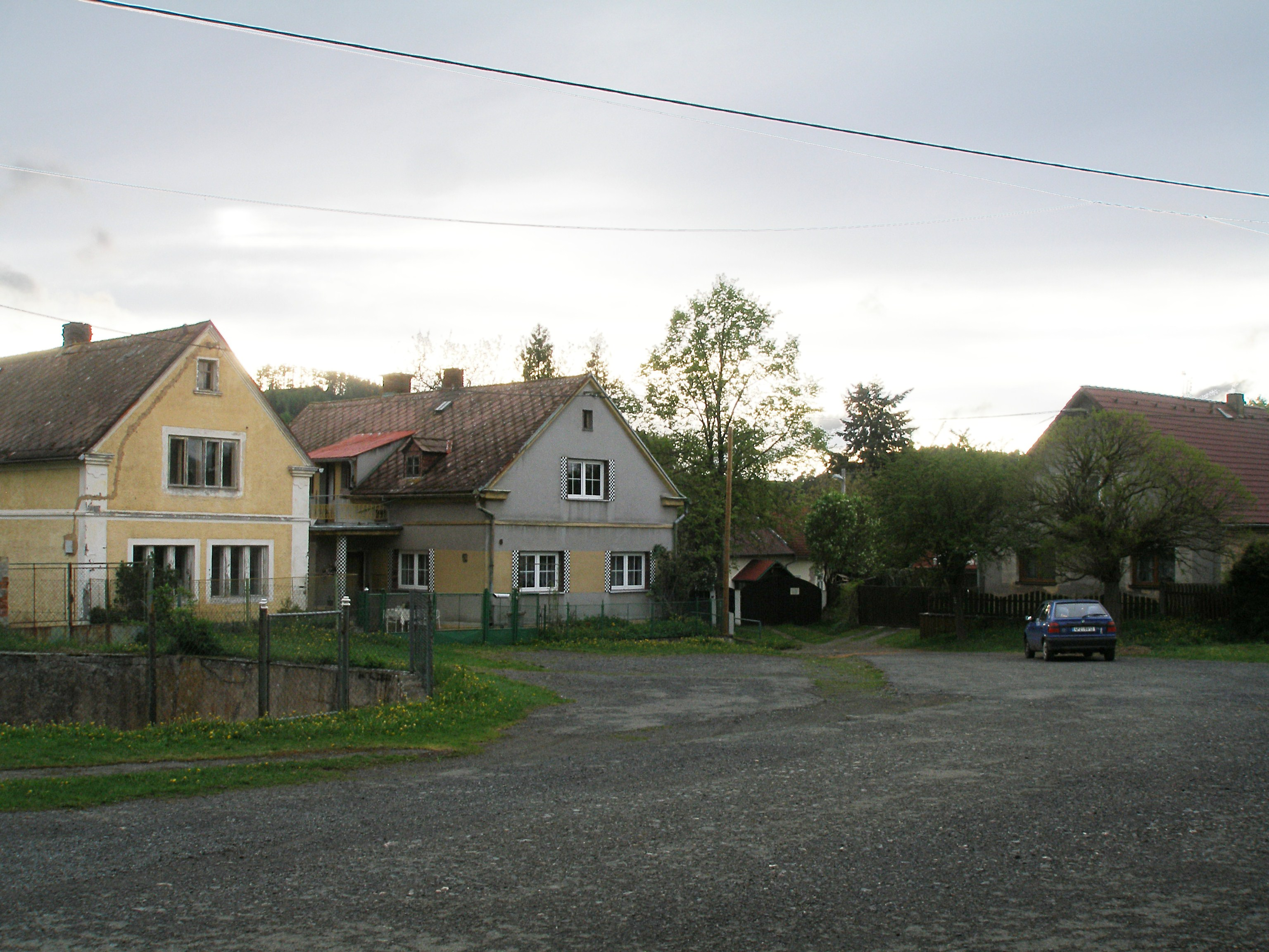 Čeliv - the north-western corner of the square